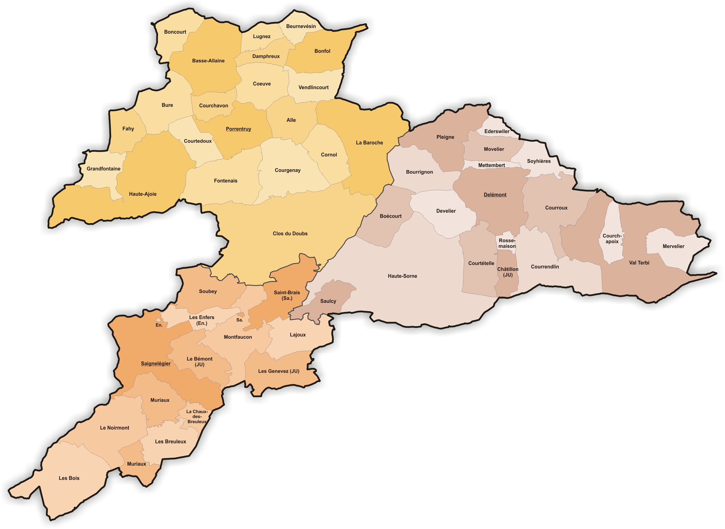 Municipalities in Canton Jura